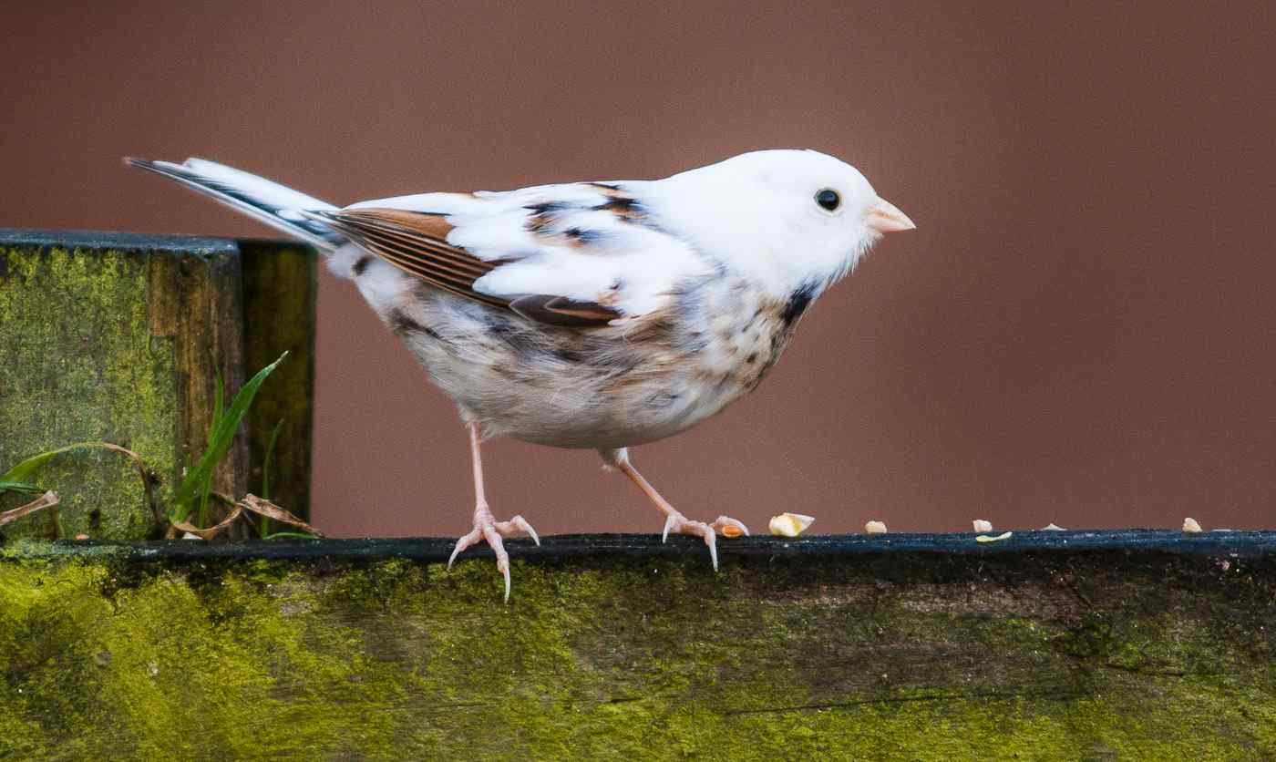 Leucistic Reed Bunting